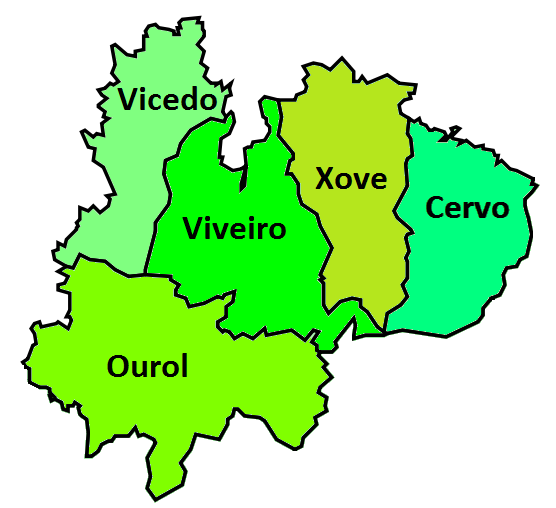 A mariña occidental